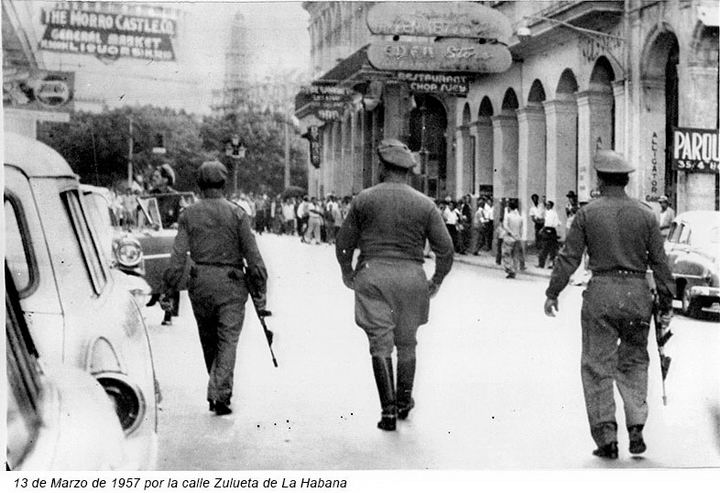 Havana Police, 13 de Marzo, 1957 por la calle Zulueta, La Havana